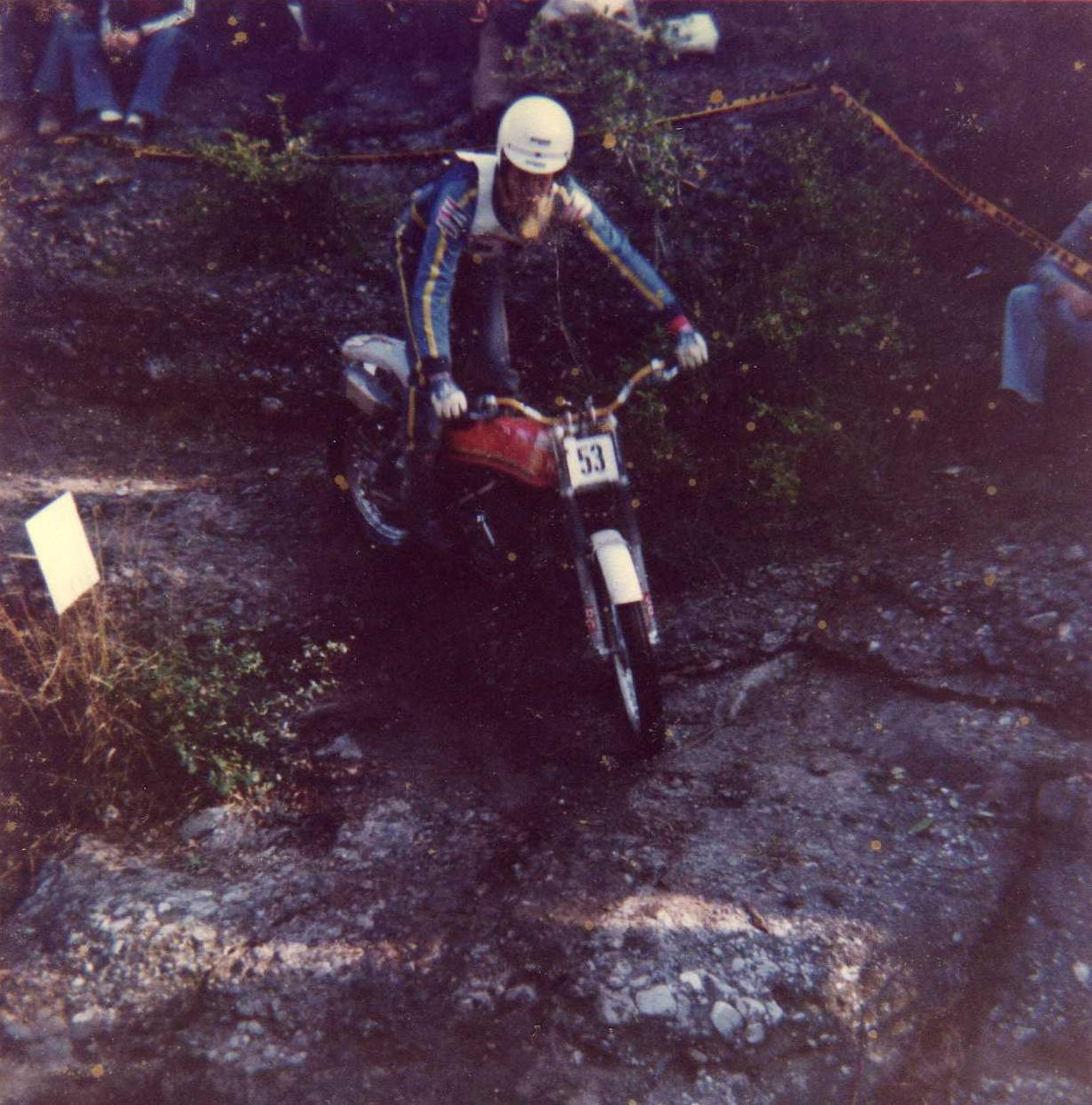 Ulf Karlson with his Montesa Cota 348 at XIII "Trial de Sant Llorenç" in Matadepera (Catalonia) on March 11, 1979. It was the 5th race of the Trial World Championship. He finished 6th.This was the section #20, called "Zona de l'Aureli", near the spring of Carlets (Rellinars).